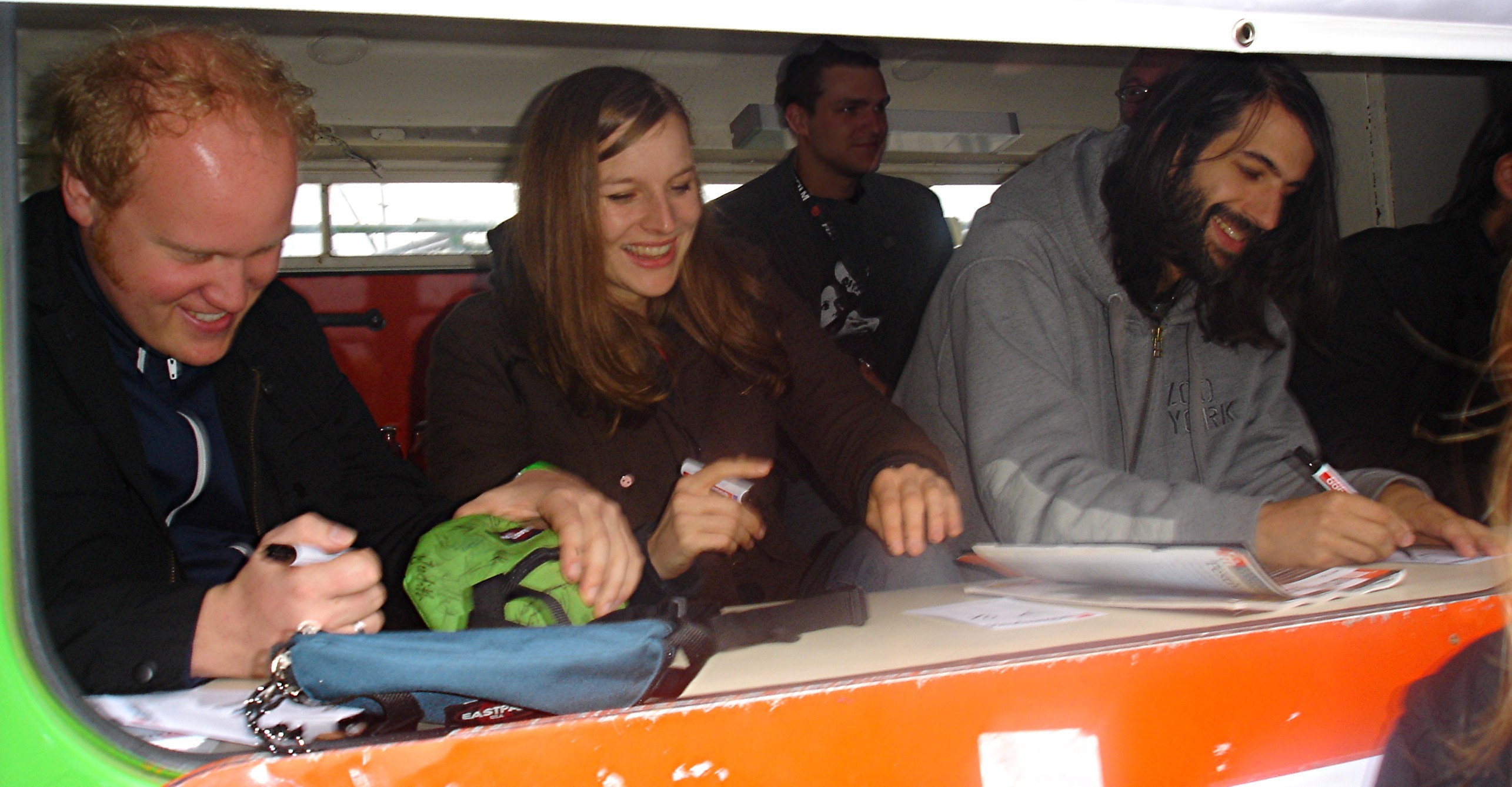 Members of Wir sind Helden writing autographs at Rock am Ring 2005. From left to right: Jean-Michel Tourette, Judith Holofernes and Pola Roy. Missing: Mark Tavassol.